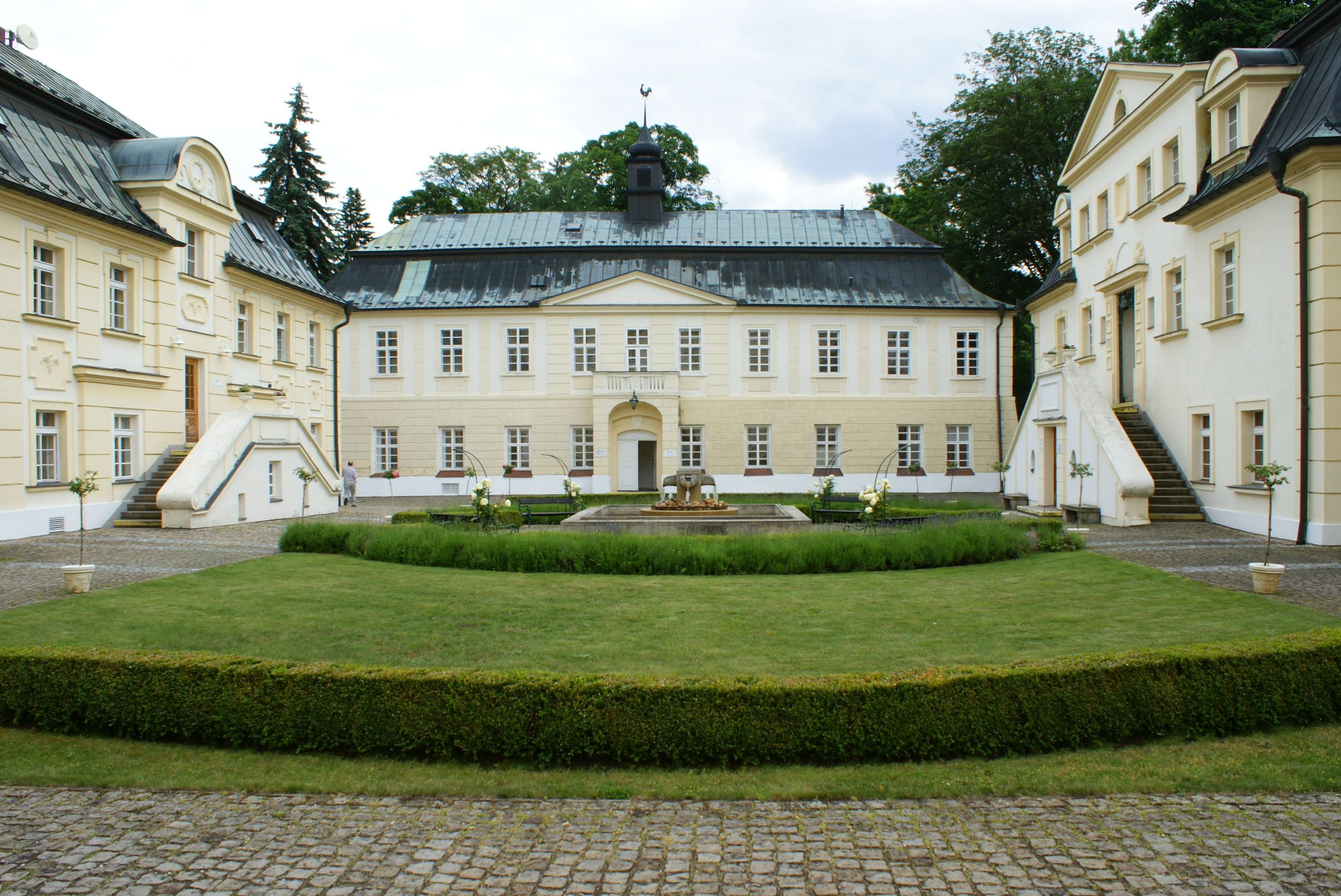 Small castle Jeneralka and courtyard.